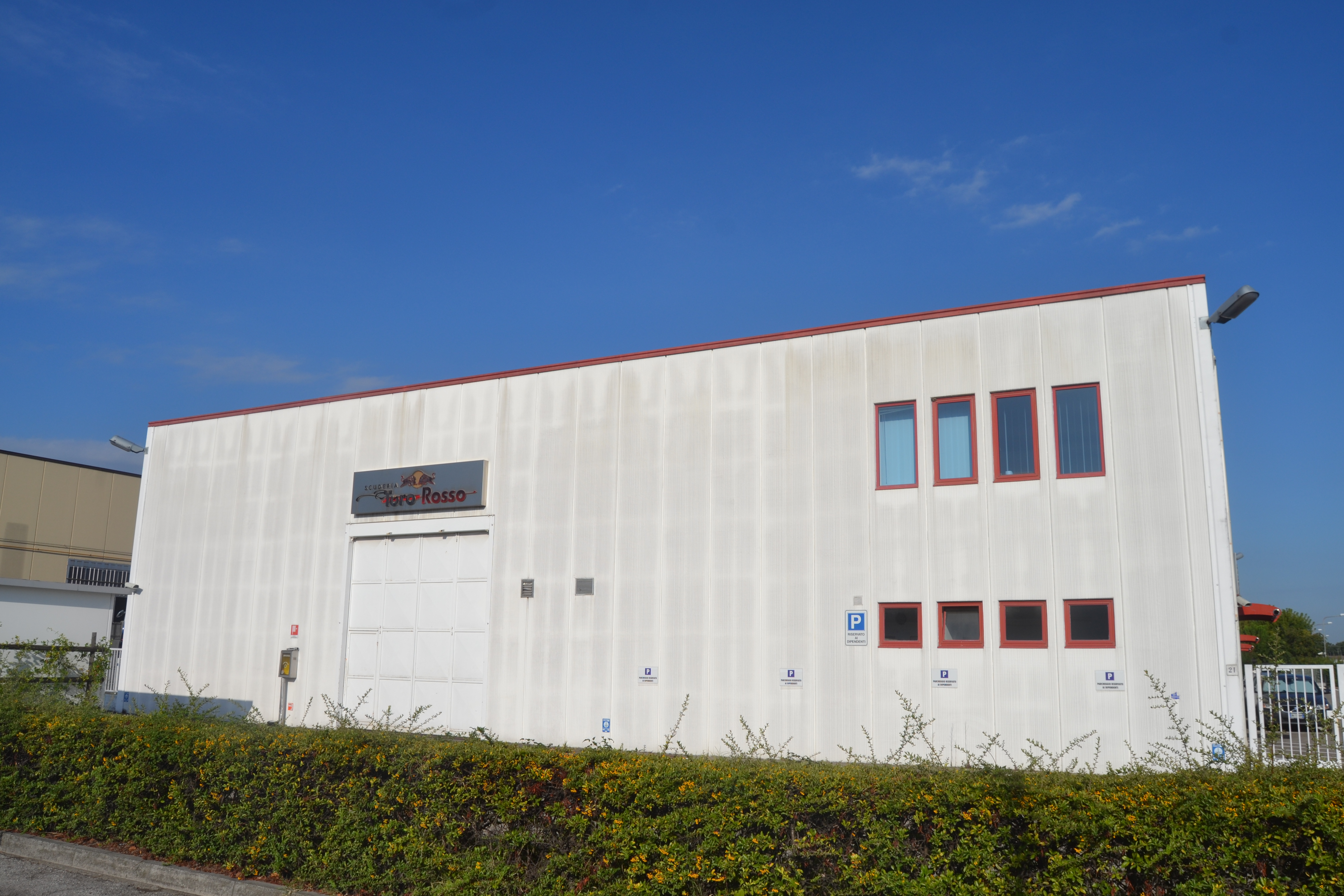 Scuderia Toro Rosso: Works Building at Via Spallanzani 5 in Faenza, the former Headquarter of the Minardi F1 Team.